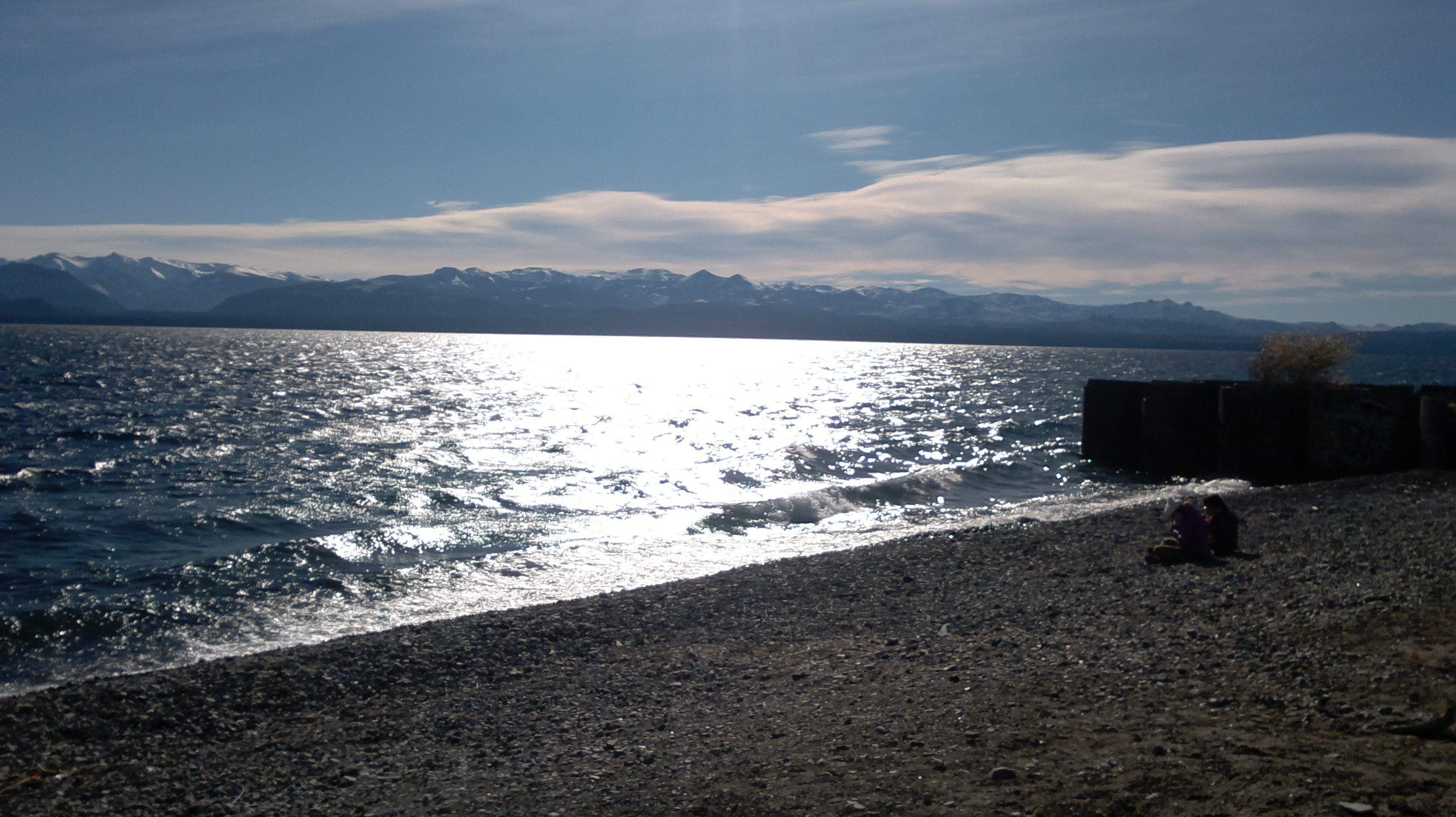 Nahuel Huapi lake 52